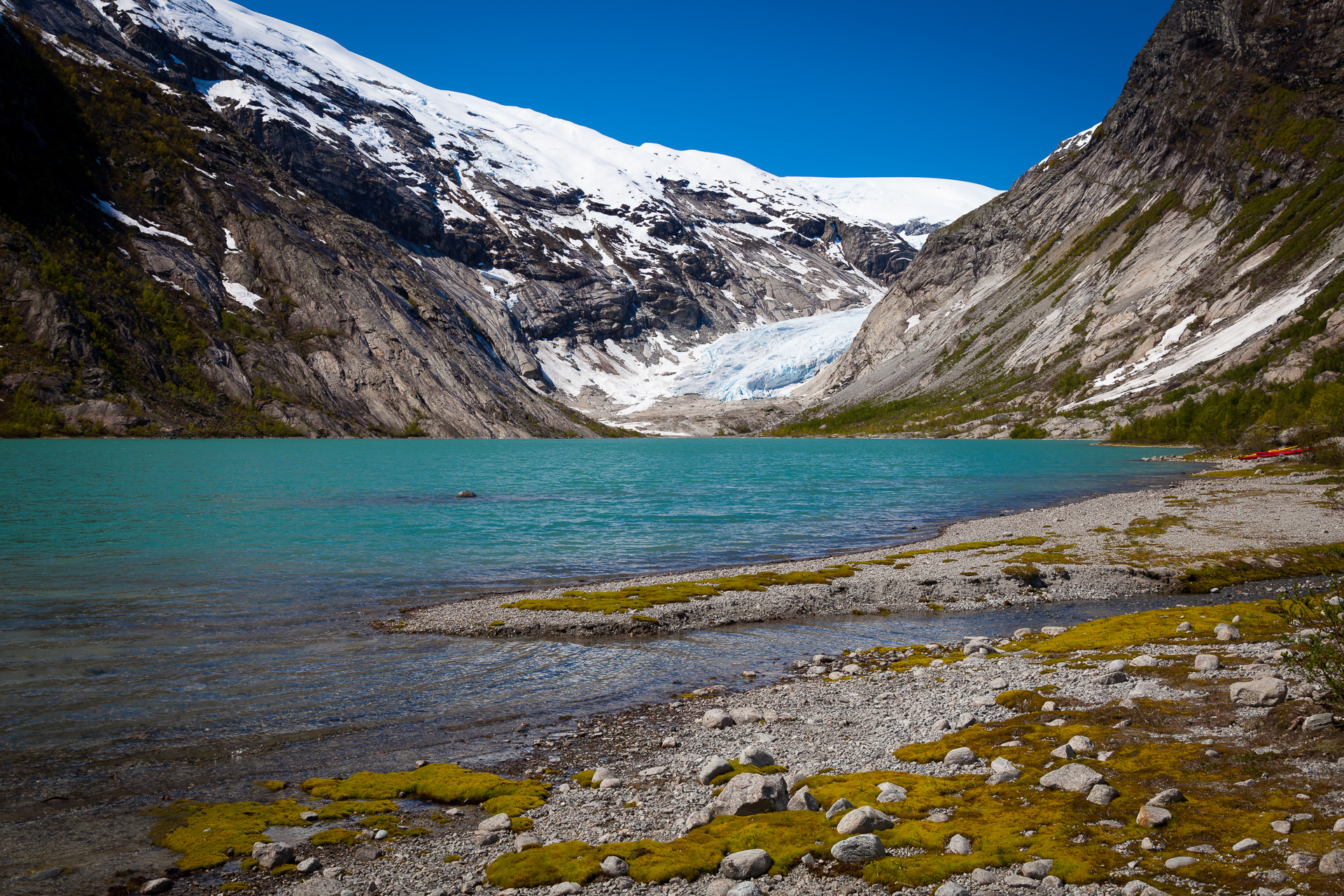 Nigardsbreen Norway